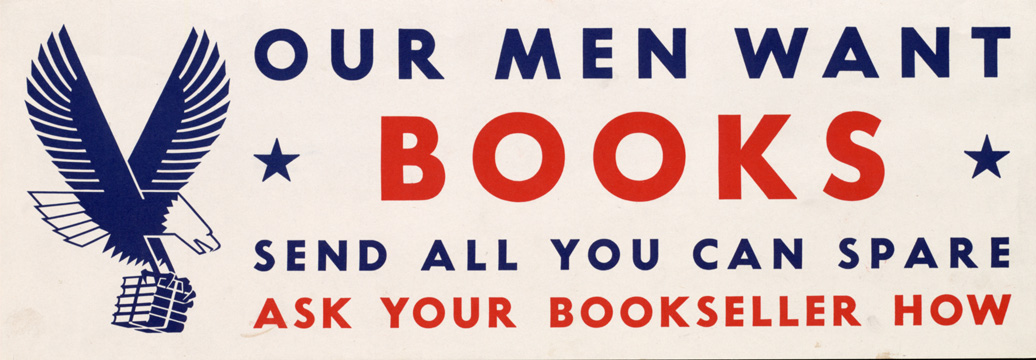 "Our men want books!" WWII-era government poster. Captioned As[edit] {}